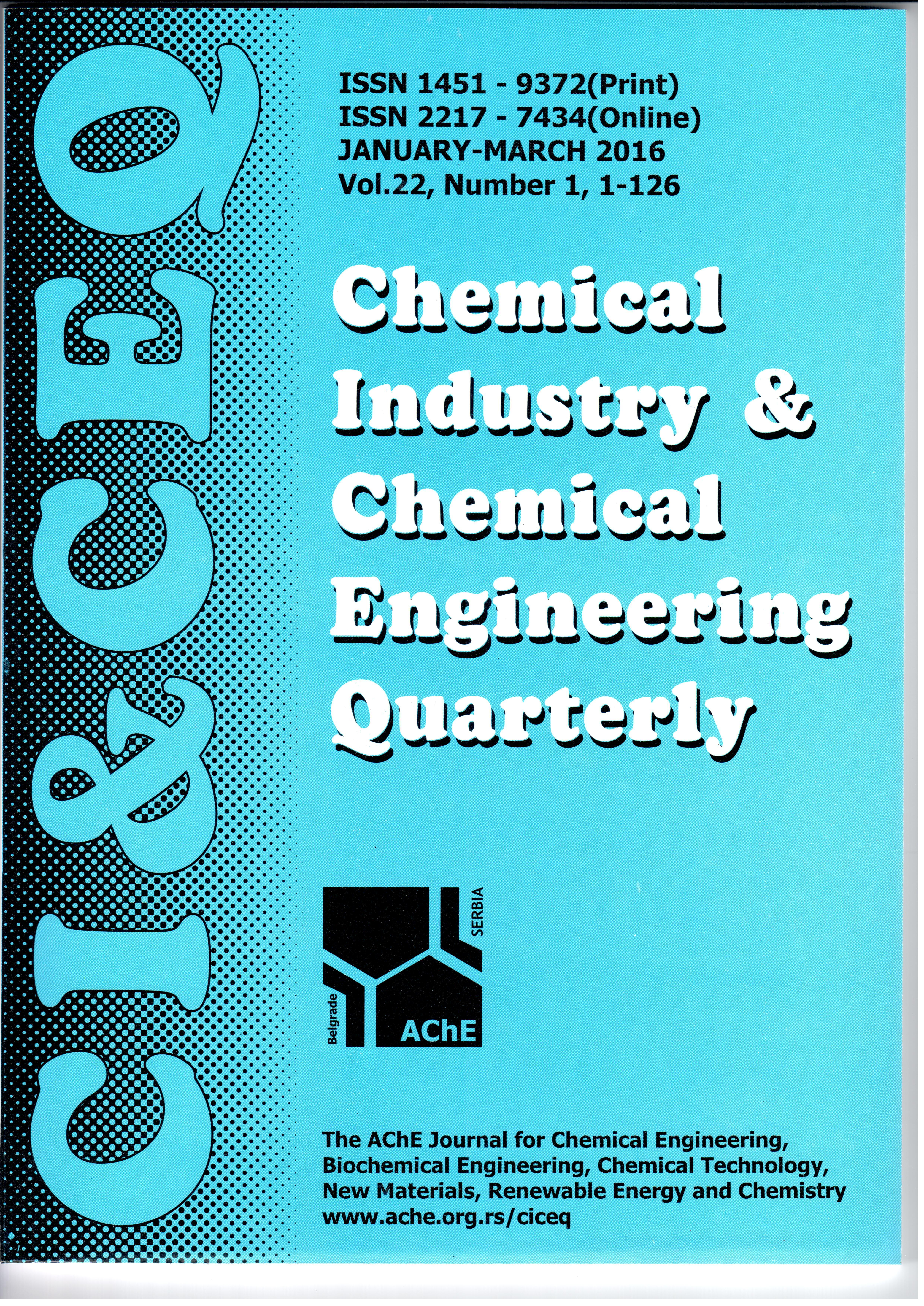 Chemical Industry & Chemical Engineering Quarterly